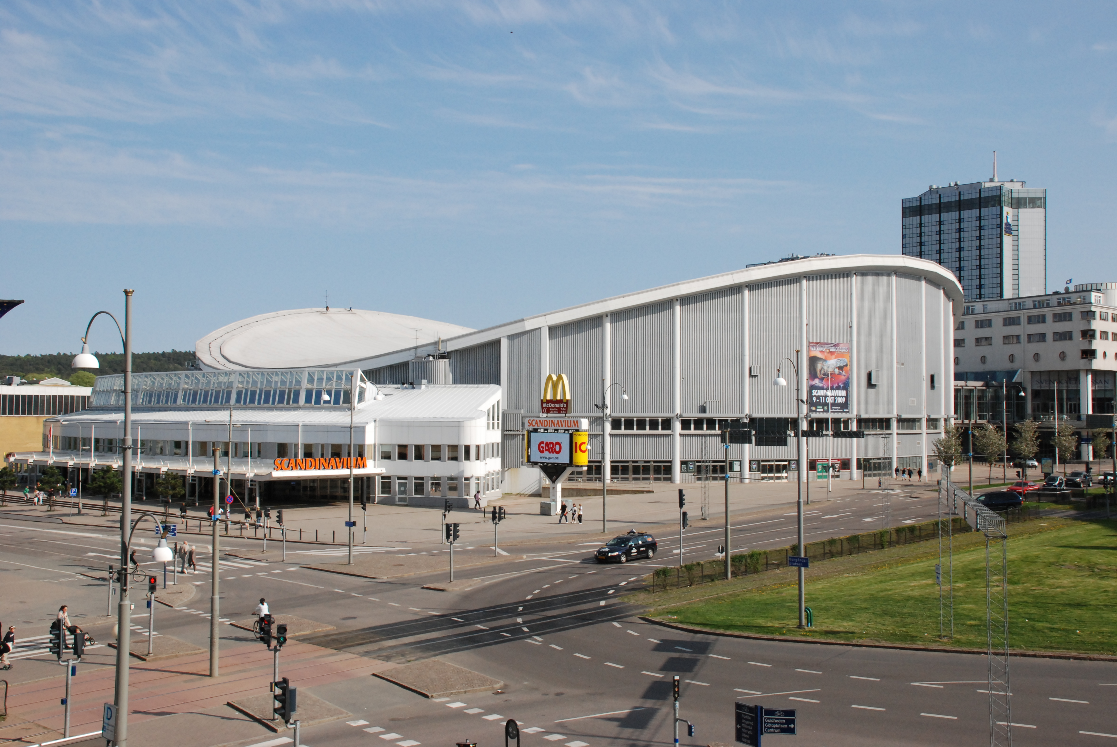 The Scandinavium Arena in Gothenburg, Sweden (Northern Europe).